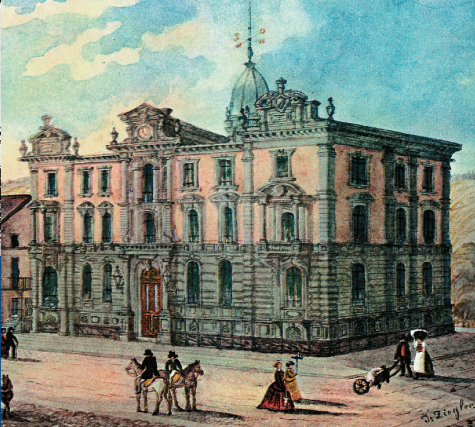 Photograph of the original offices of the Bank in Winterthur (1862-1912, predecessor of the Union Bank of Switzerland)